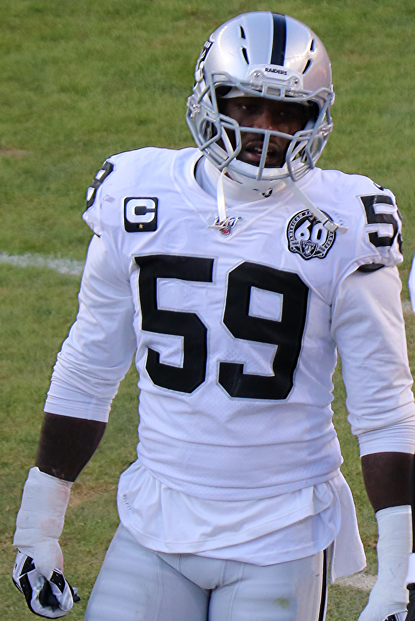 Tahir Whitehead, a National Football League player.